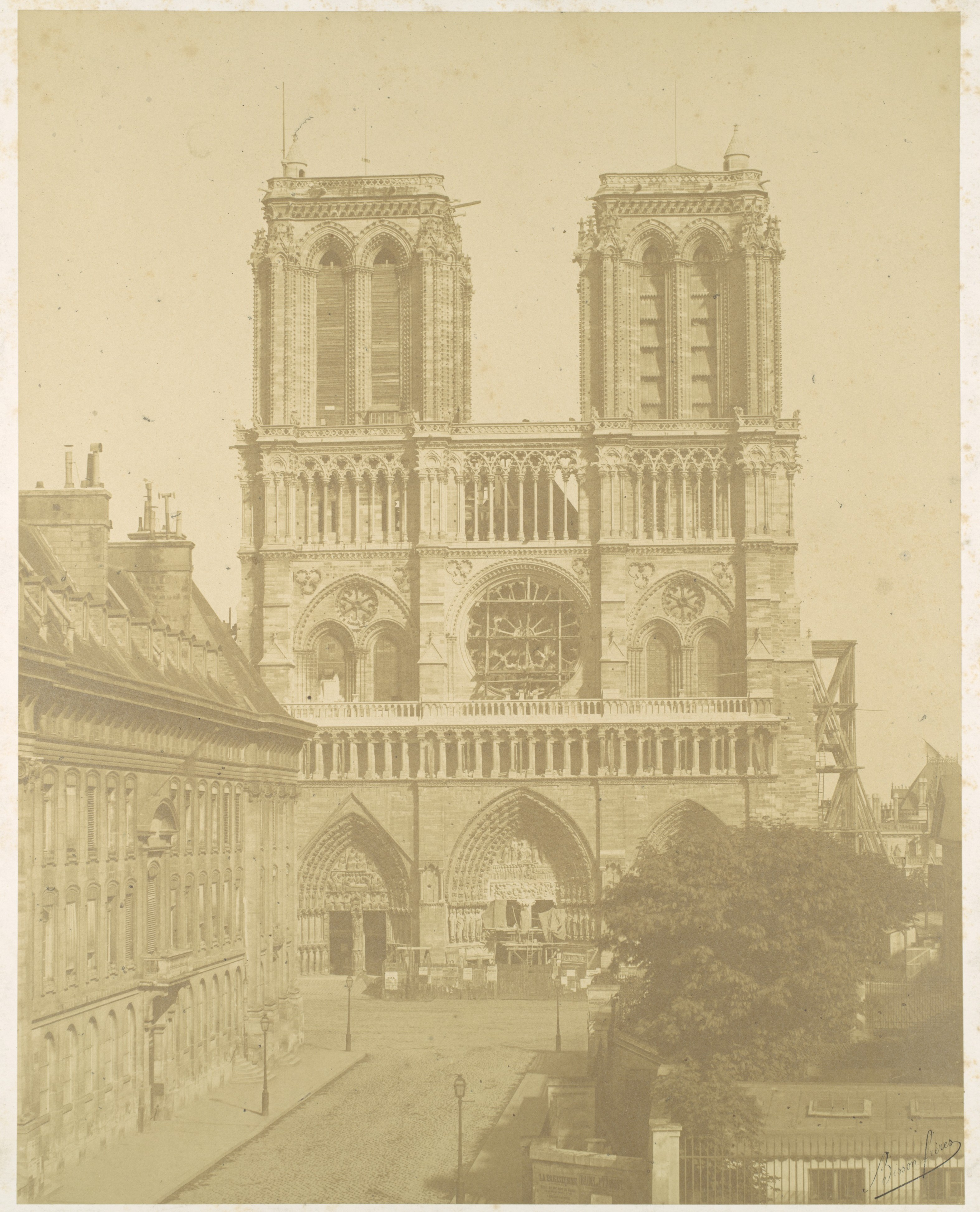 Notre Dame, Paris